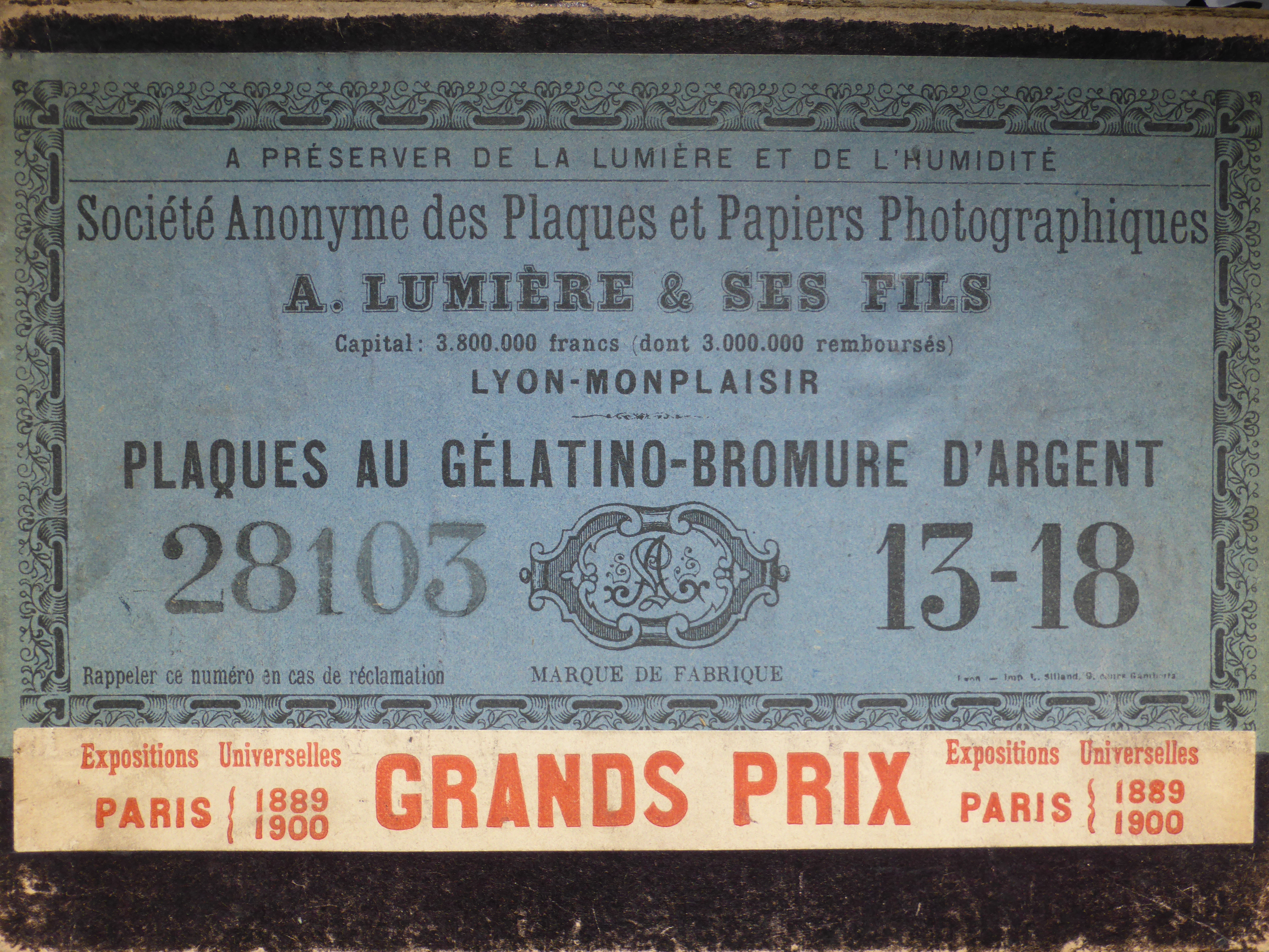 Gelatin dry plate process.